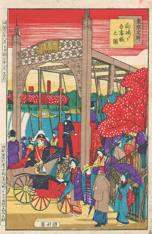 Utagawa Kunitoshi, The Newly Built Azuma Bridge, from the series Tokoyo meisho, 1893